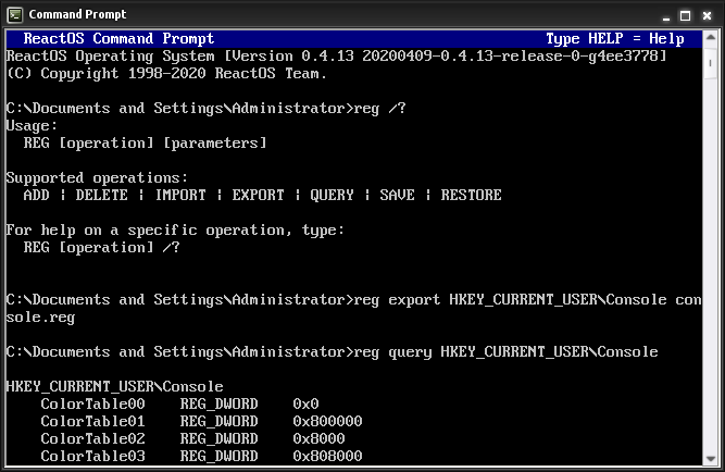 reg command on ReactOS-0.4.13